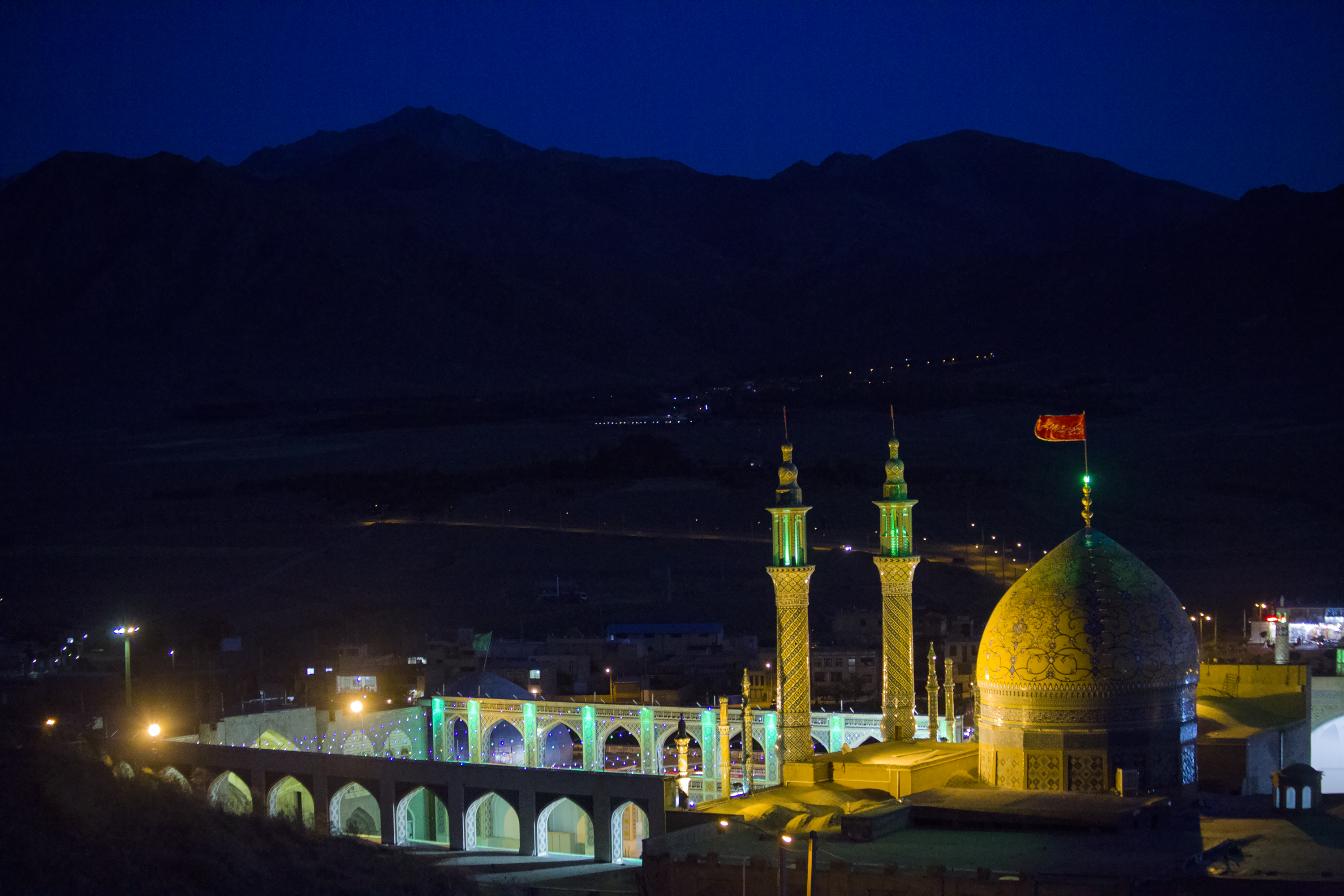 'Ali ibn Muhammad ibn 'Ali ibn al-Husayn was the son of the fifth imam of Twelver Shii Muslims and fourth imam of Ismaili Shii Muslims, Muhammad al-Baqir.